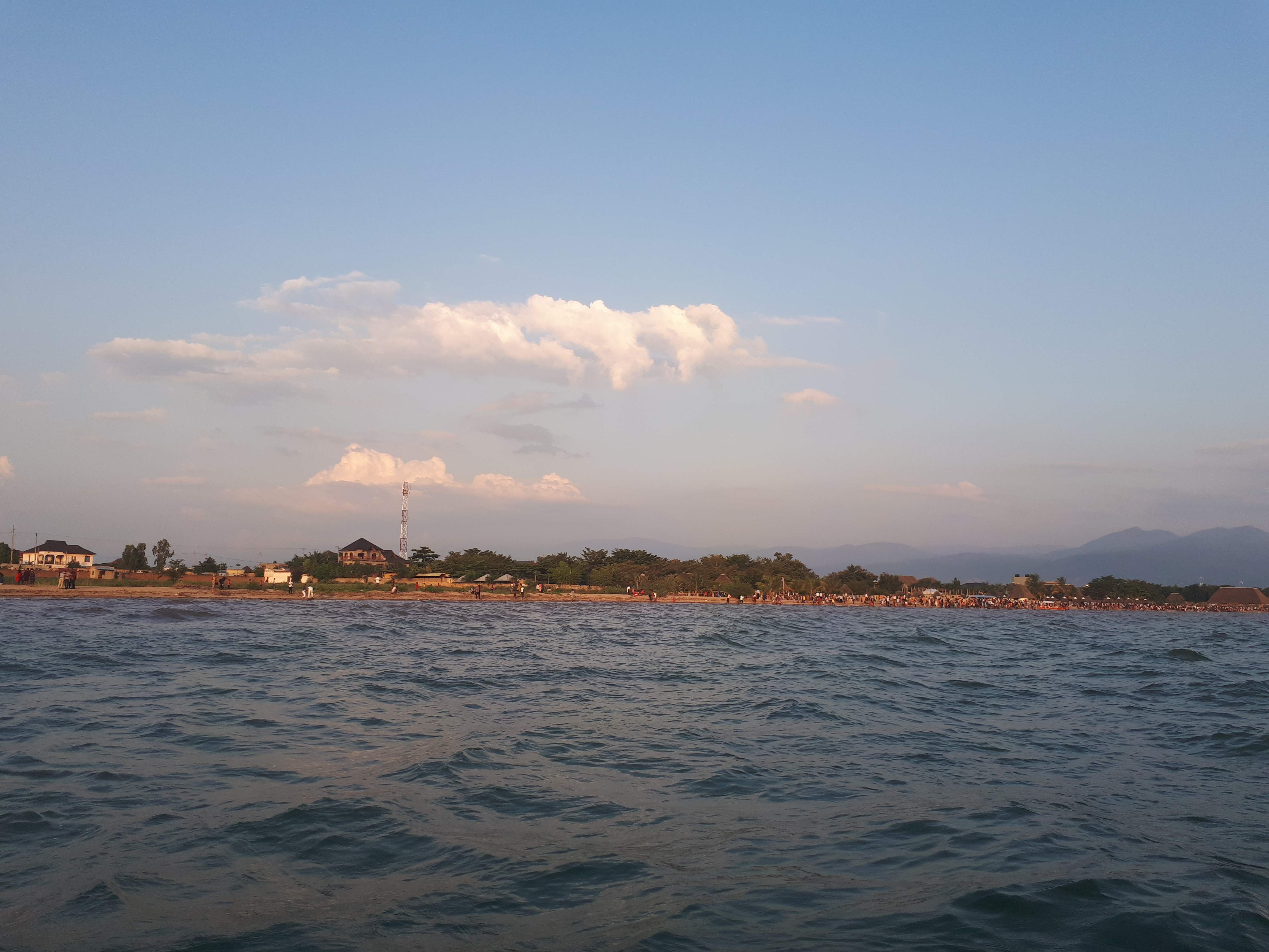 Tanganyika is the second worldwide longest lake. Apart from this, it is a guift to burundians bringing them happyness and growth. It connects them to many other countries by water navigation. This is an image with the theme "Africa on the Move or Transport" from: Burundi